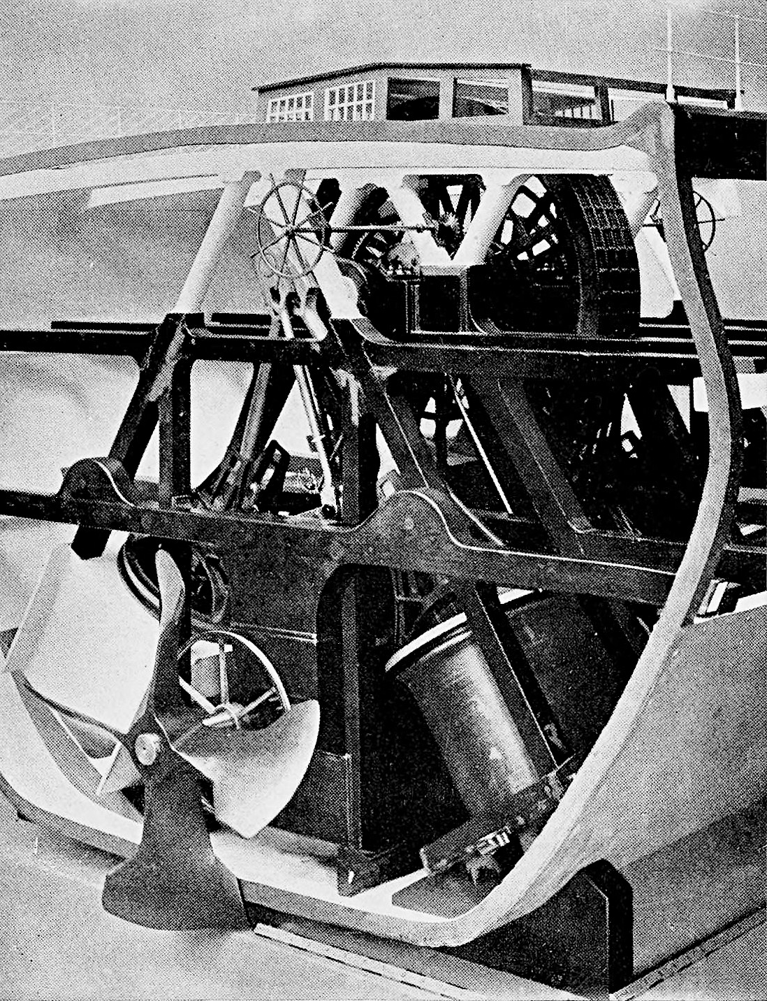 A model of SS Great Britain's original engines, from the Victoria and Albert Museum, showing the arrangement of the inclined engine cylinders and the giant gearwheel and gear chains, the top of which actually rose above the main deck where they were housed in their own cabin. This model has a propeller placed on the gear shaft which may give a misleading impression that the engines were in the stern of the vessel, adjacent to the propeller. In reality, the engines were amidships and the propeller was in the stern, more than 130 feet away from the midship section shown here.